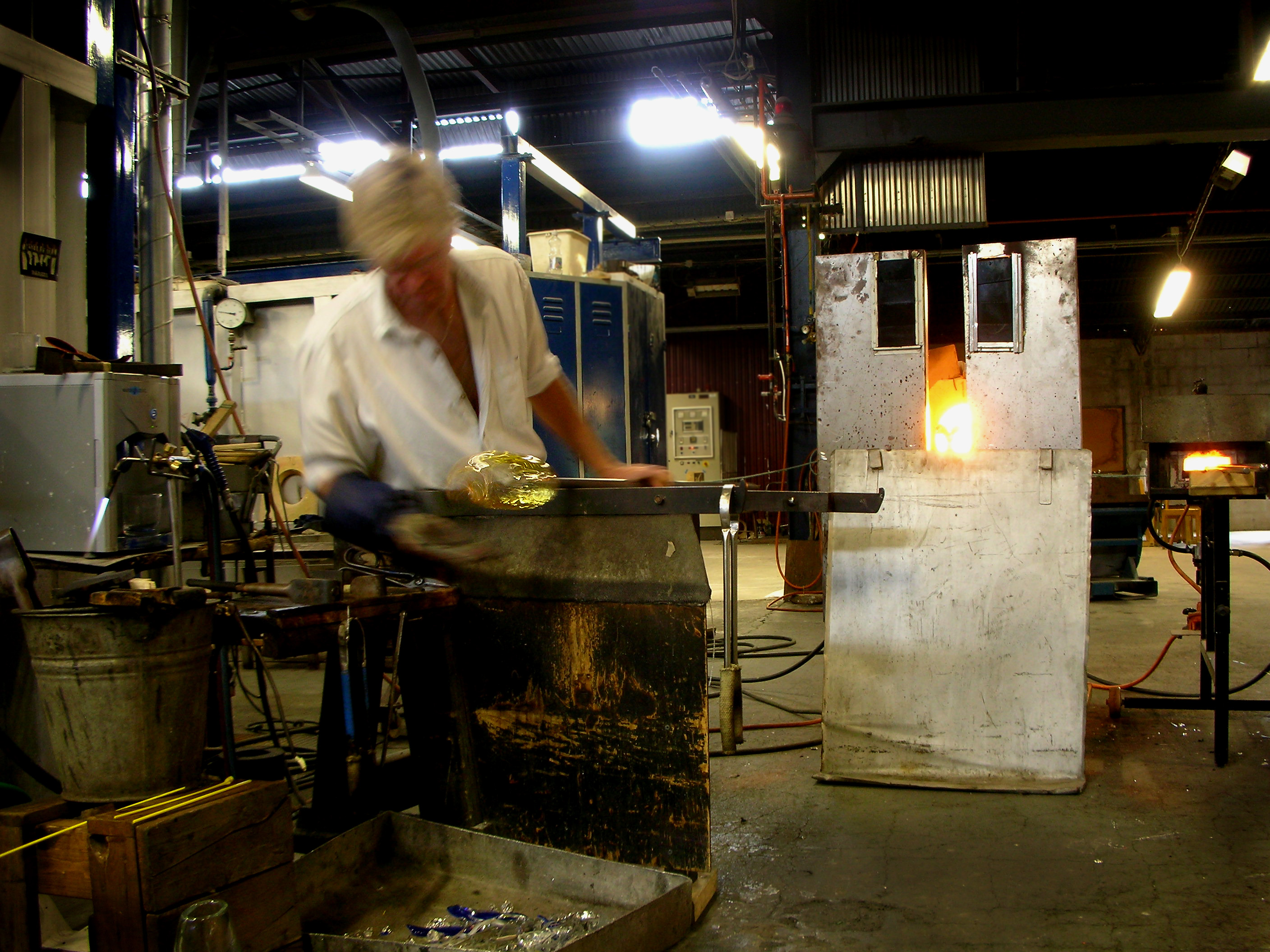 Work in progress at the Reijmyre Glasbruk, Sweden